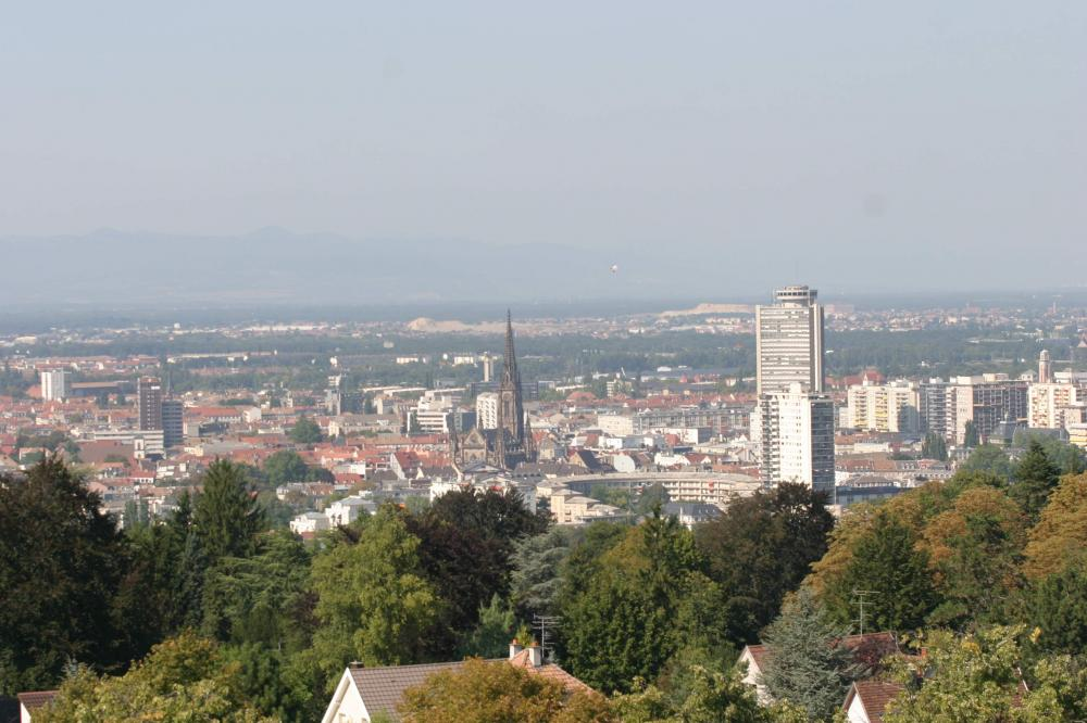 Cityscape of Mulhouse from Belvedere